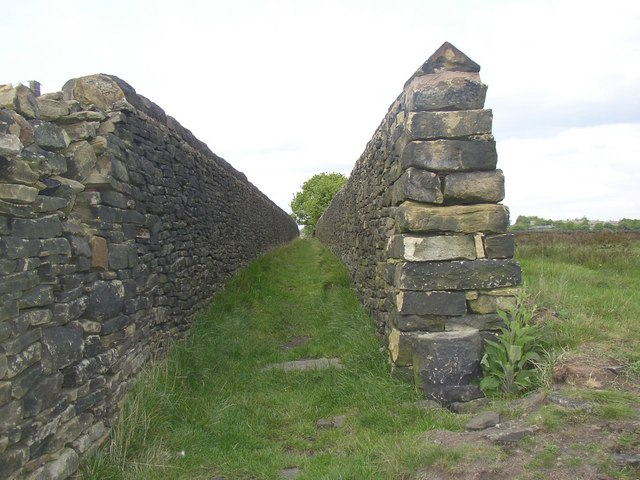 Footpath at Nab End, Longwood Why such tall walls? The land on the right is otherwise unenclosed and has moorland vegetation, and there is a field of grass on the left. The cross-section of the wall shows how it is tapered from bottom to top.